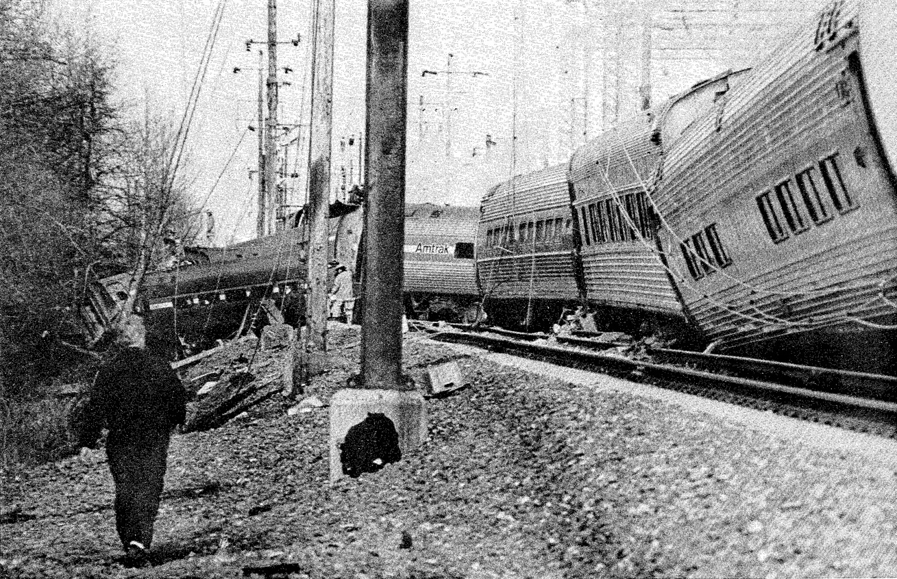 Amtrak's Colonial. The second car from right is a Heritage Fleet coach; the rest are Amfleets.